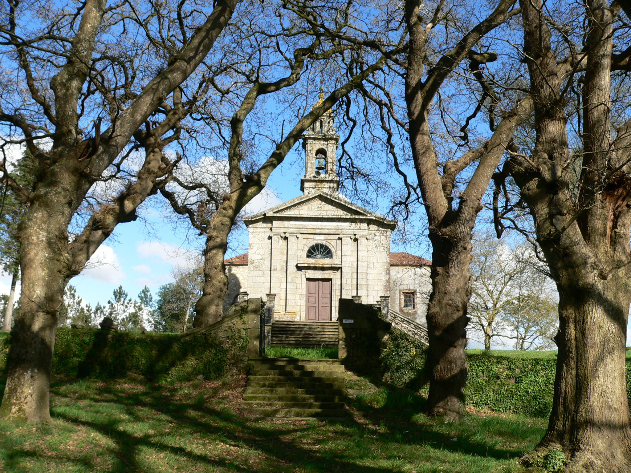 Santa Eufemia Church in Vilouchada, Trazo, A Coruña, Galicia, Spain.